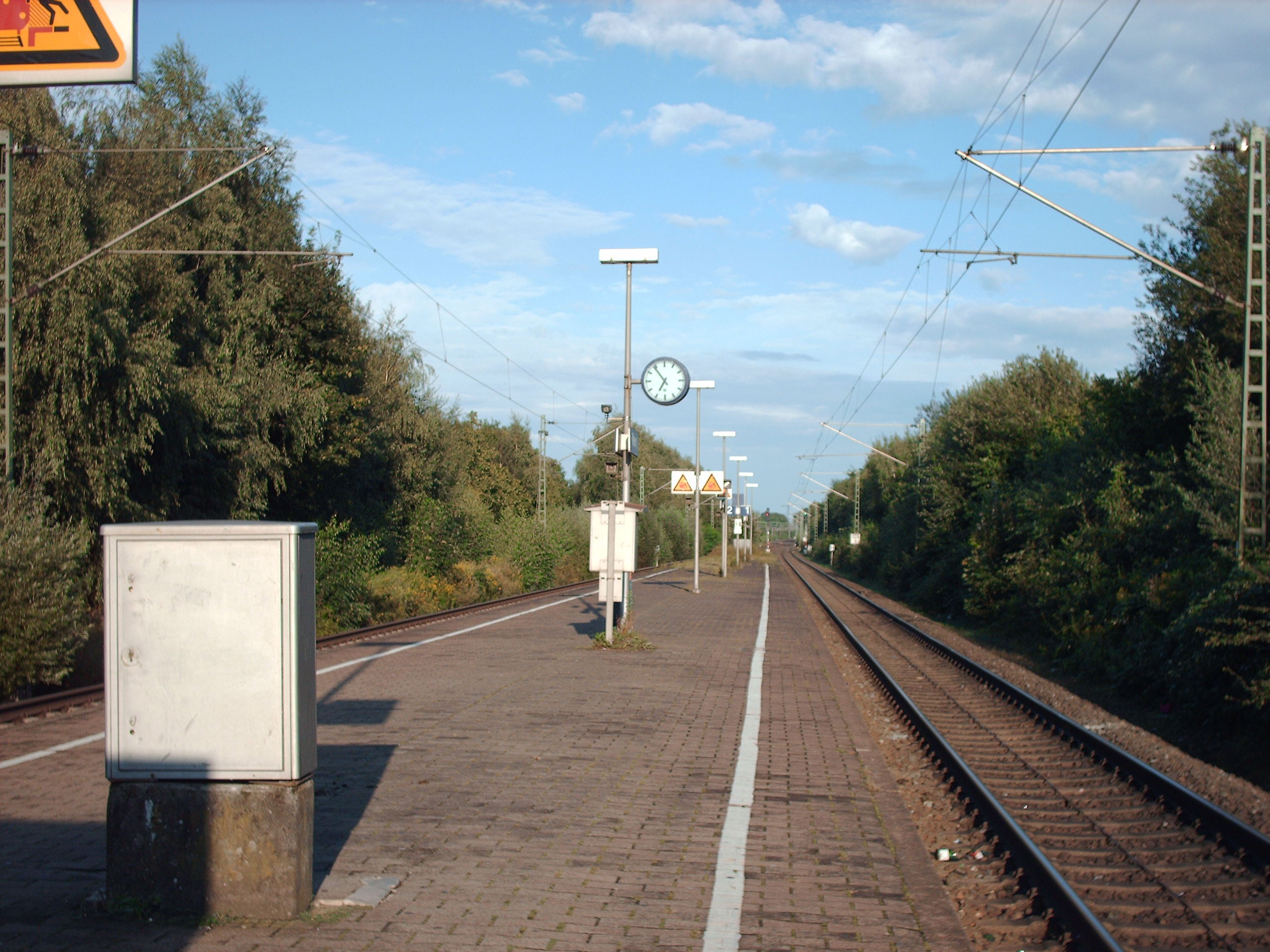 Welver station, Welver, Germany check usage